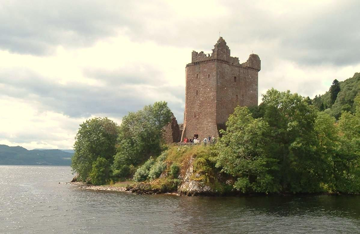 View from the Loch as the boat approaches the wee jetty beside the Castle.